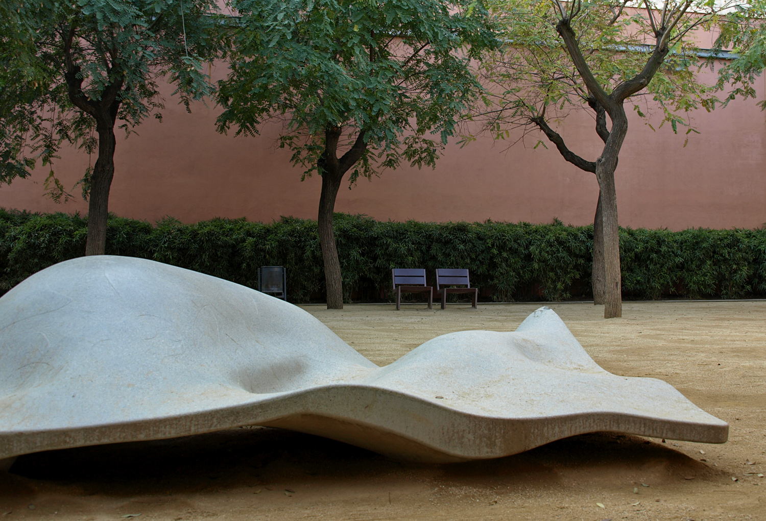 Interior garden of Jaume Perich: Jardins de Jaume Perich (Barcelona, Spain)